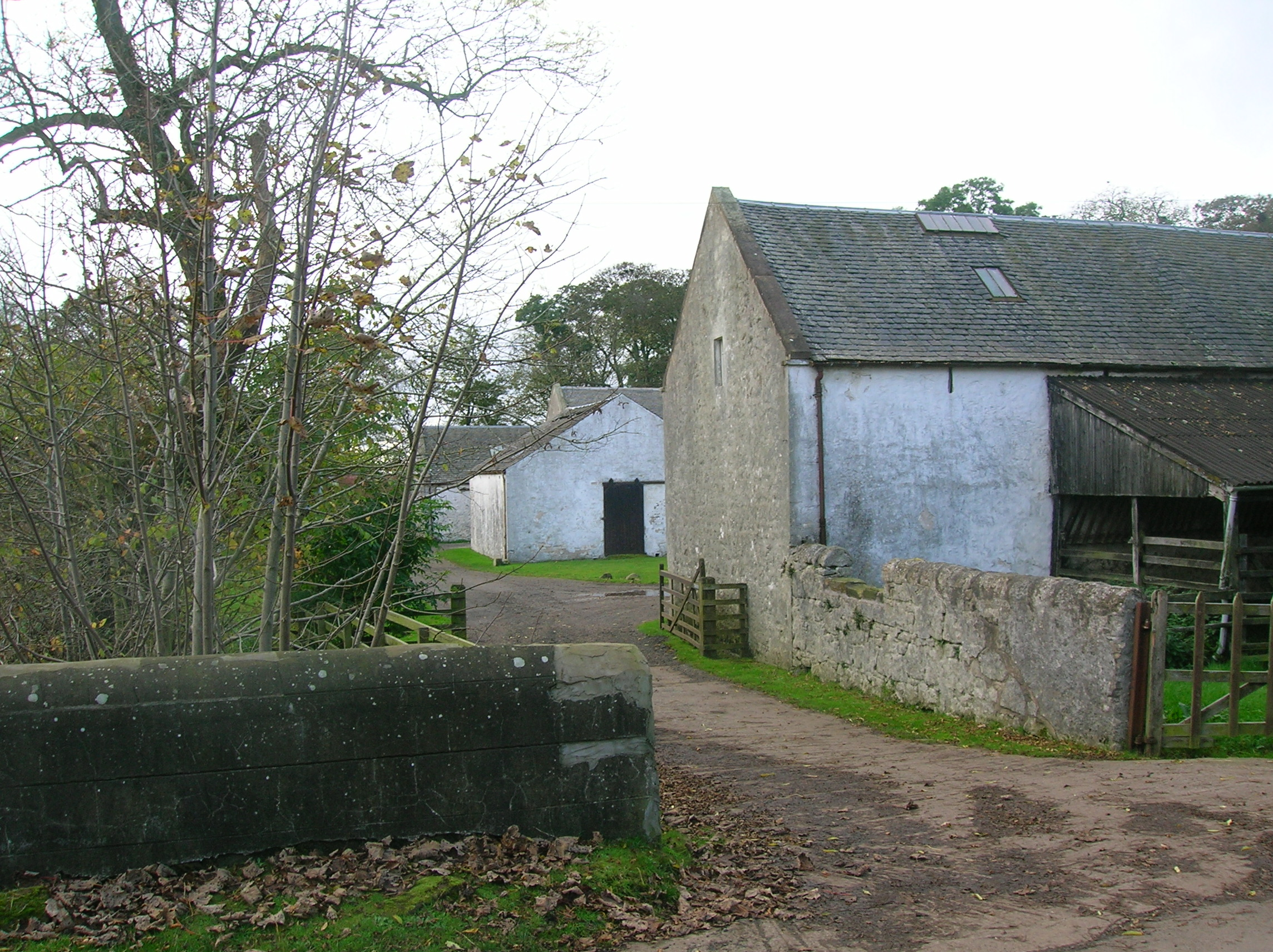 Titwood farm, North Ayrshire, Scotland.